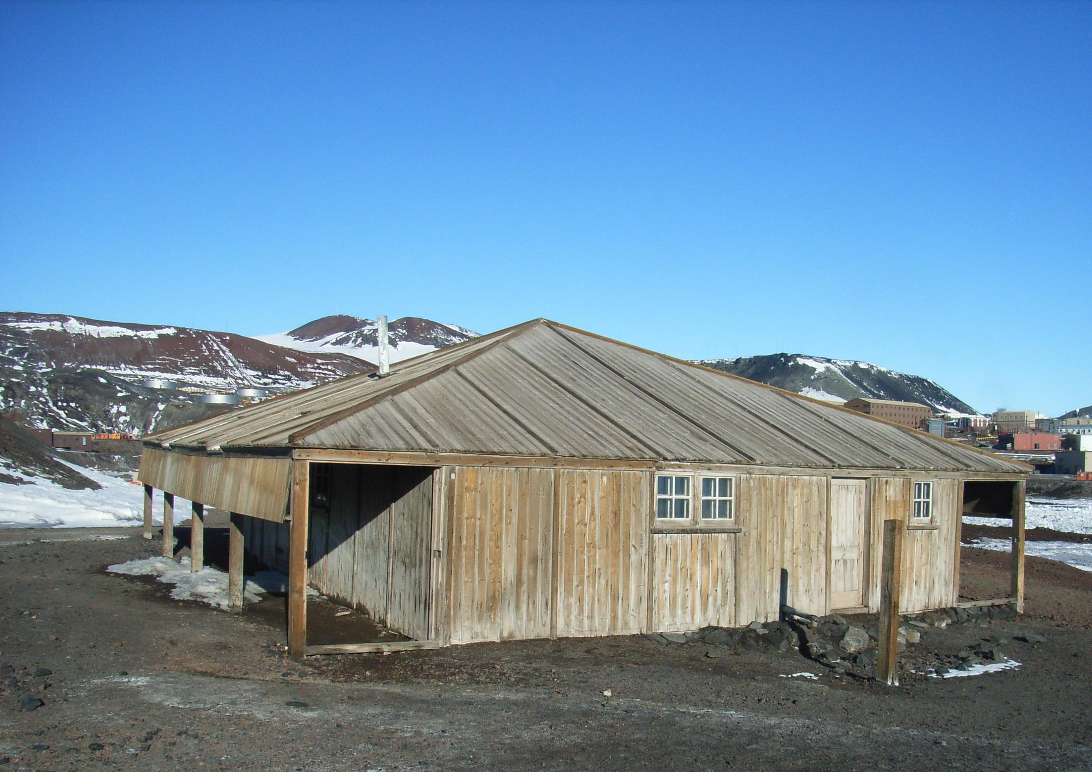 Hut remaining from the Discovery expedition with McMurdo Station in the background